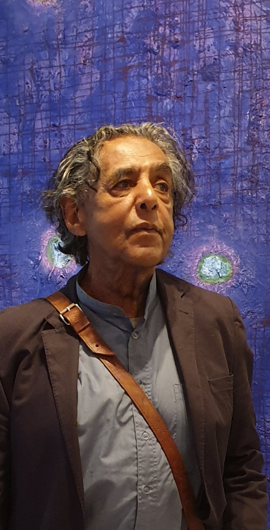 Photo of artist Guillaume Lo-A-Njoe, made by Corné Bibo on July 2nd 2019 during his show at artistsociety Arti et Amicitiae Amsterdam. In the background his work Cosmic Flowers, an eightsquare oil and tempera painting, painted in 2018.